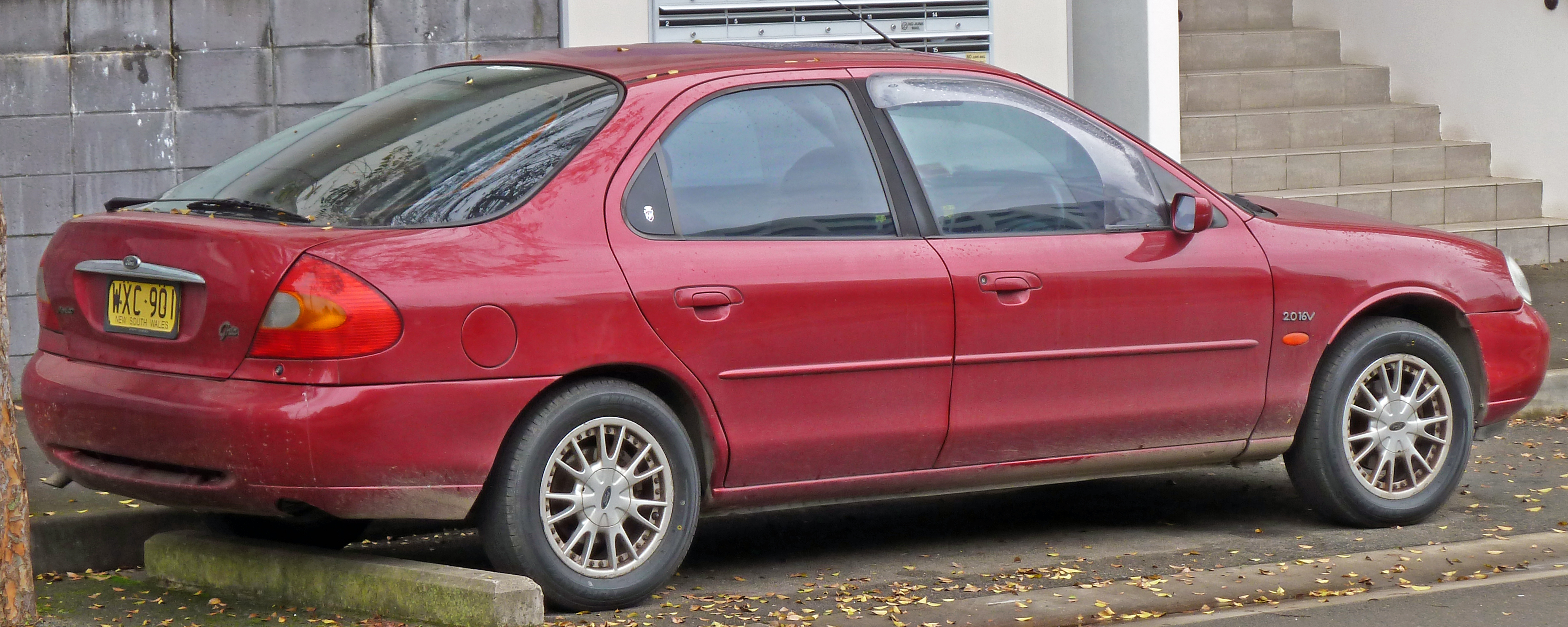 2000 Ford Mondeo (HE) Ghia hatchback. Photographed in Zetland, New South Wales, Australia.